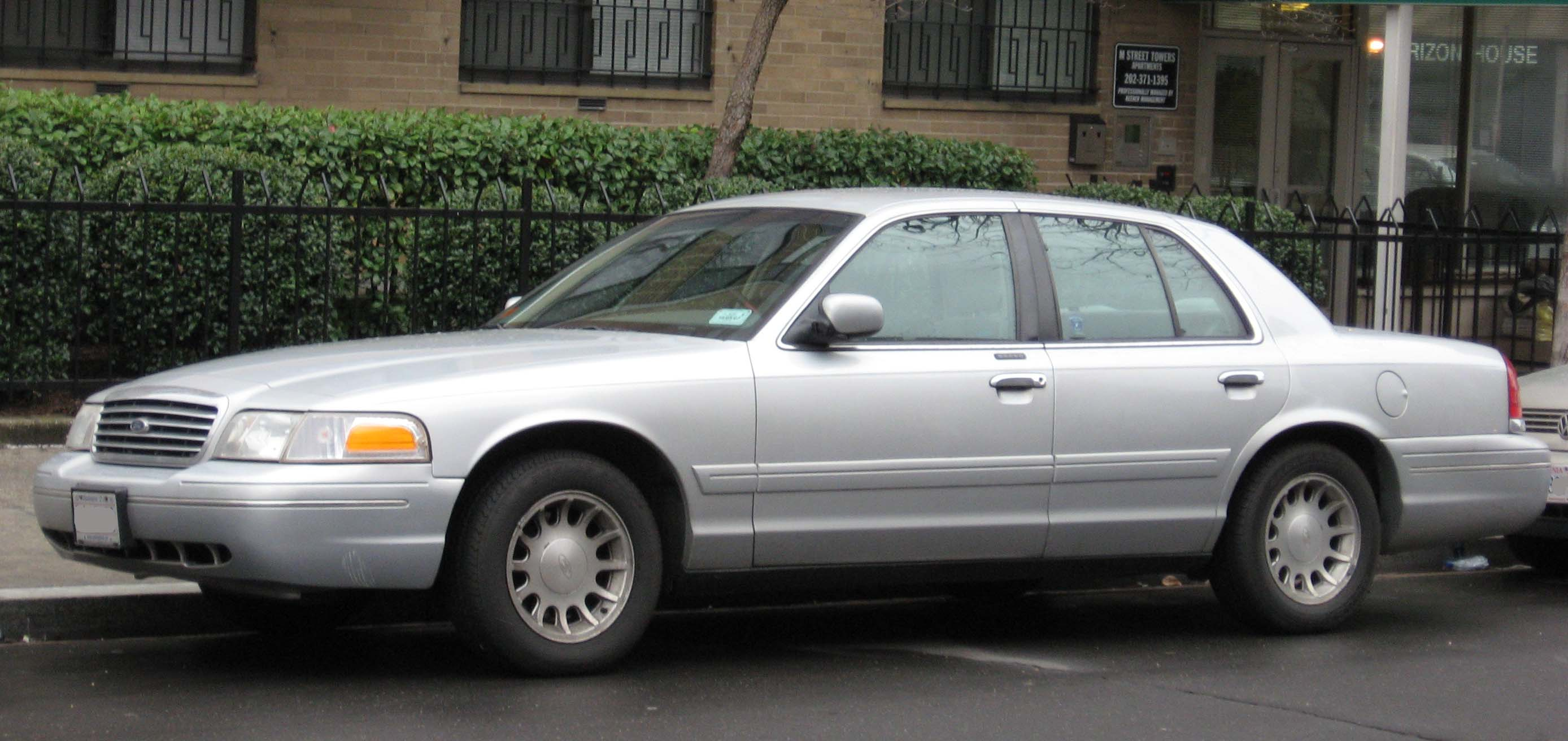 1998-2007 Ford Crown Victoria photographed in USA.